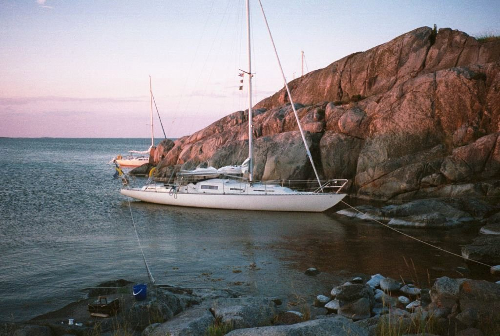 Swedish sailing yacht S 30